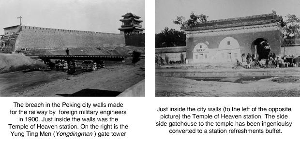 Photographs of railway and Temple of Heaven station built by foreign military forces in Peking (Beijing),China.c 1901